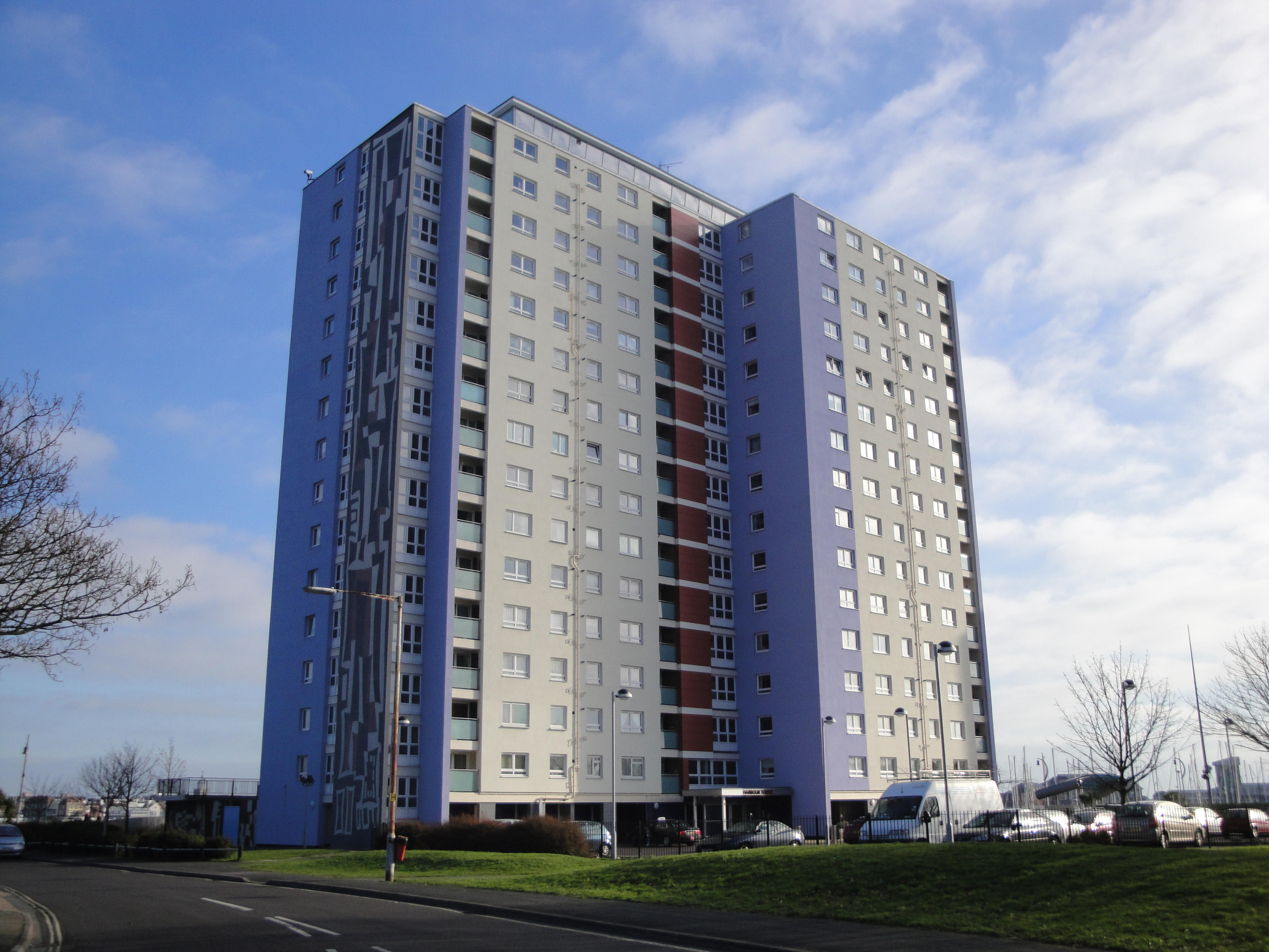 Harbour Tower, a residential block off South Street, Gosport, Hampshire.